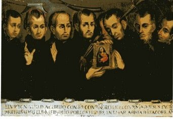 Painting with the Martyrs of Brasil or of Tazacorte, by J. Manuel de Silva, at the Iglesia Matriz de El Salvador (La Palma, Canary Islands)